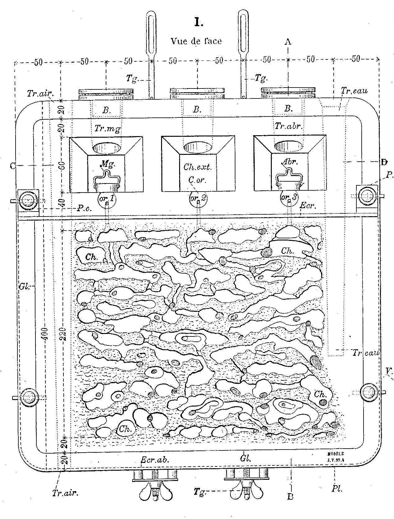 Apparatus for rearing and observing ants